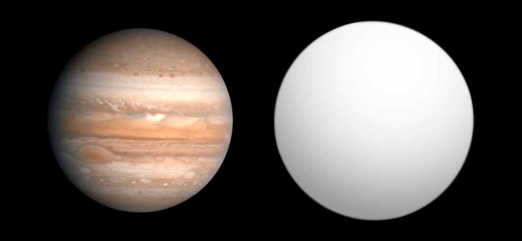 Comparison of best-fit size of the exoplanet WASP-10 b with the Solar System planet Jupiter, as reported in the Open Exoplanet Catalogue[1] as of 2010-09-30. ↑ Open Exoplanet Catalogue (2010-09-30). Retrieved on 2010-09-30.